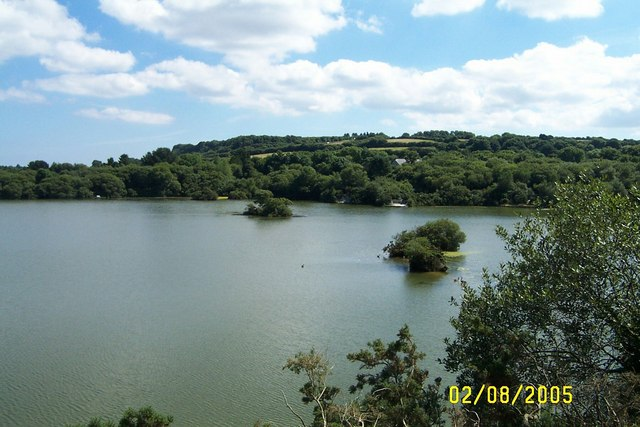 Treskilling (disused) china clay pit It is on the Eden trail, a home to water fowl and fish; is partly covered with water lilies in the summer; and is used by Imerys as a reservoir for other parts of the production